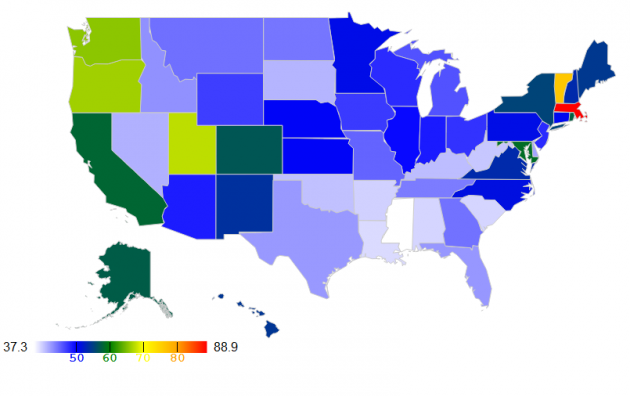 A heatmap of signatures to the Access2Research petition. The shades of pale blue are somewhere below or about the national average. The lowest score was 37.3 (Mississippi) and the closest to average score was 50.3 (Nebraska). If a state is solid blue, then it is on-par with the rest of the country. Moving up the color scheme, each solid color is one more standard deviation above the average (i.e., Green is +1SD, Yellow is +2SD, etc.). The scale topped off at 88.9 (Massachusetts).